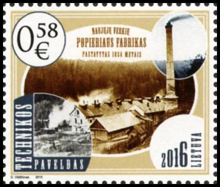 Post stamp. Naujieji Verkiai, Paper Mill, Lithuania